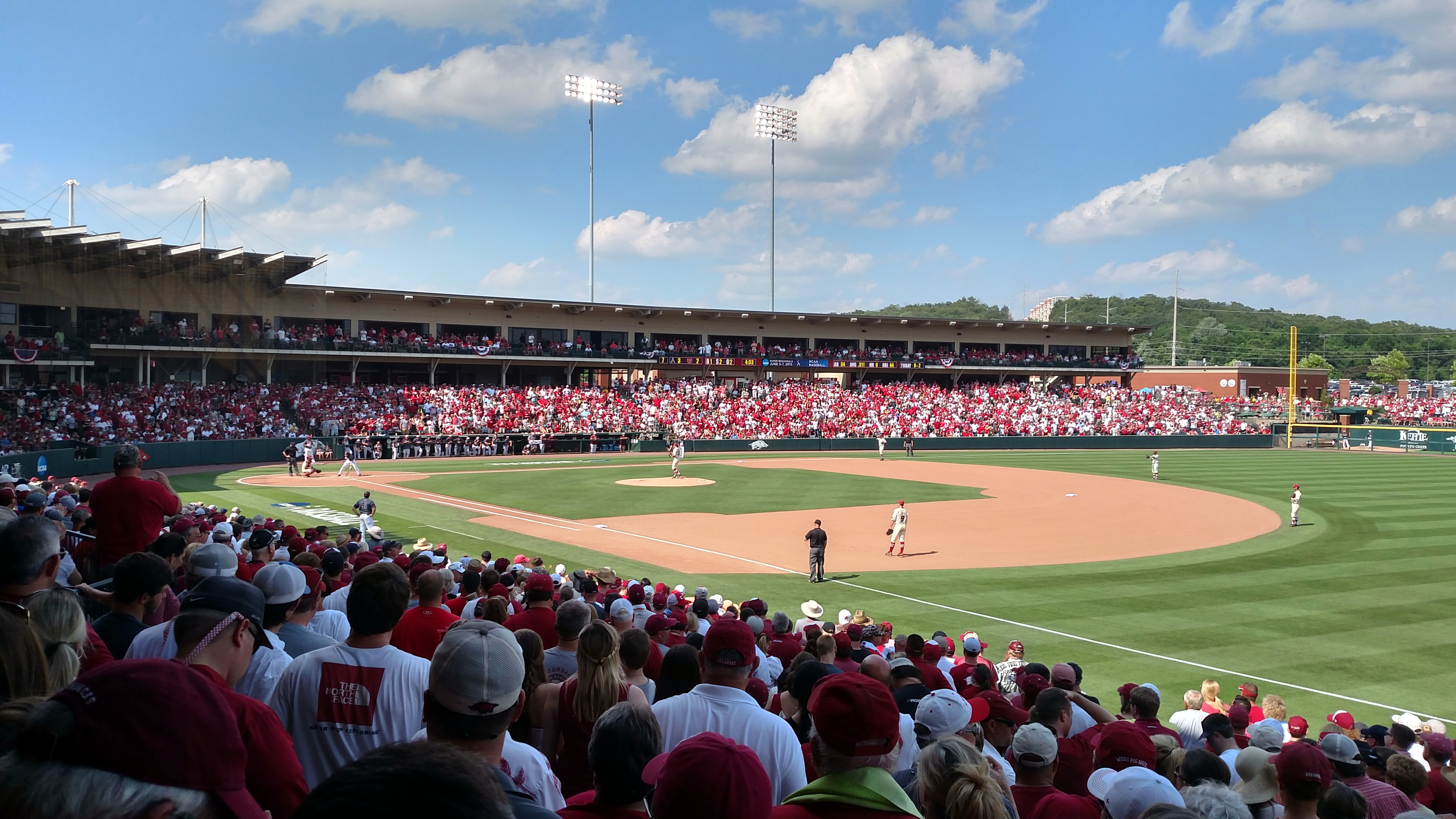 Game 3